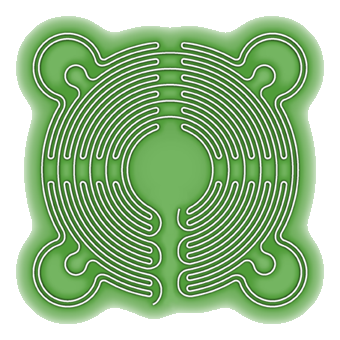 A diagram of the turf maze at Saffron Walden based on the diagram in WH Matthews' Mazes and Labyrinths (1922). I created the artwork in FreeHand and Photoshop. This small version of the image can be used freely (Public domain). Simon Garbutt SiGarb 14:04, 5 October 2005 (UTC)